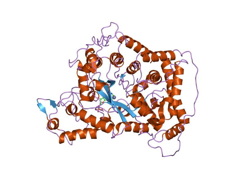 Cartoon representation of the molecular structure of protein registered with 2a3l code.